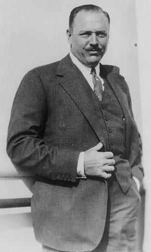 Robert L. Bacon, (1884-1938), three-quarter length portrait, standing, facing right